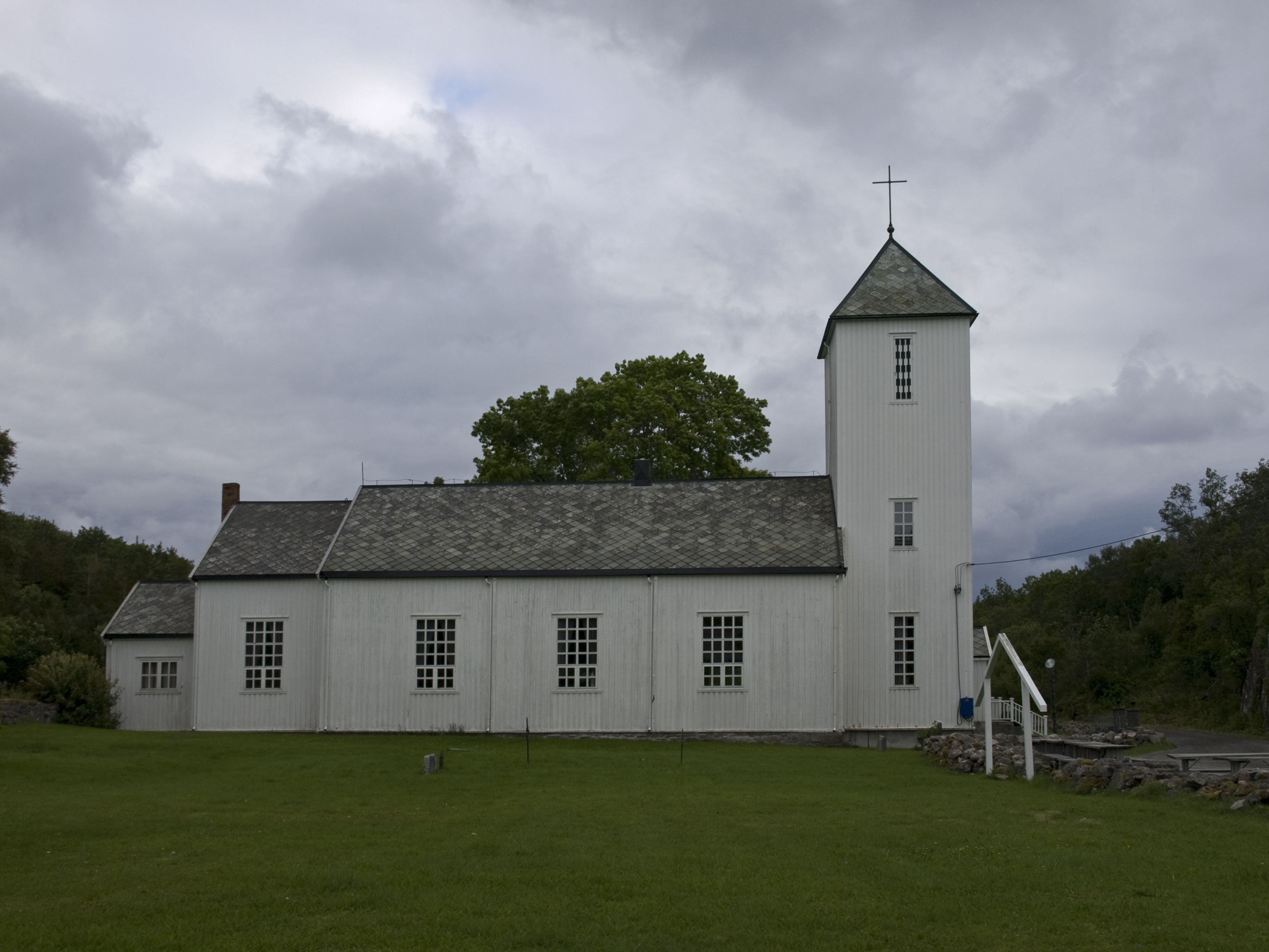 Vikna Church, Nord-Trøndelag, Norway